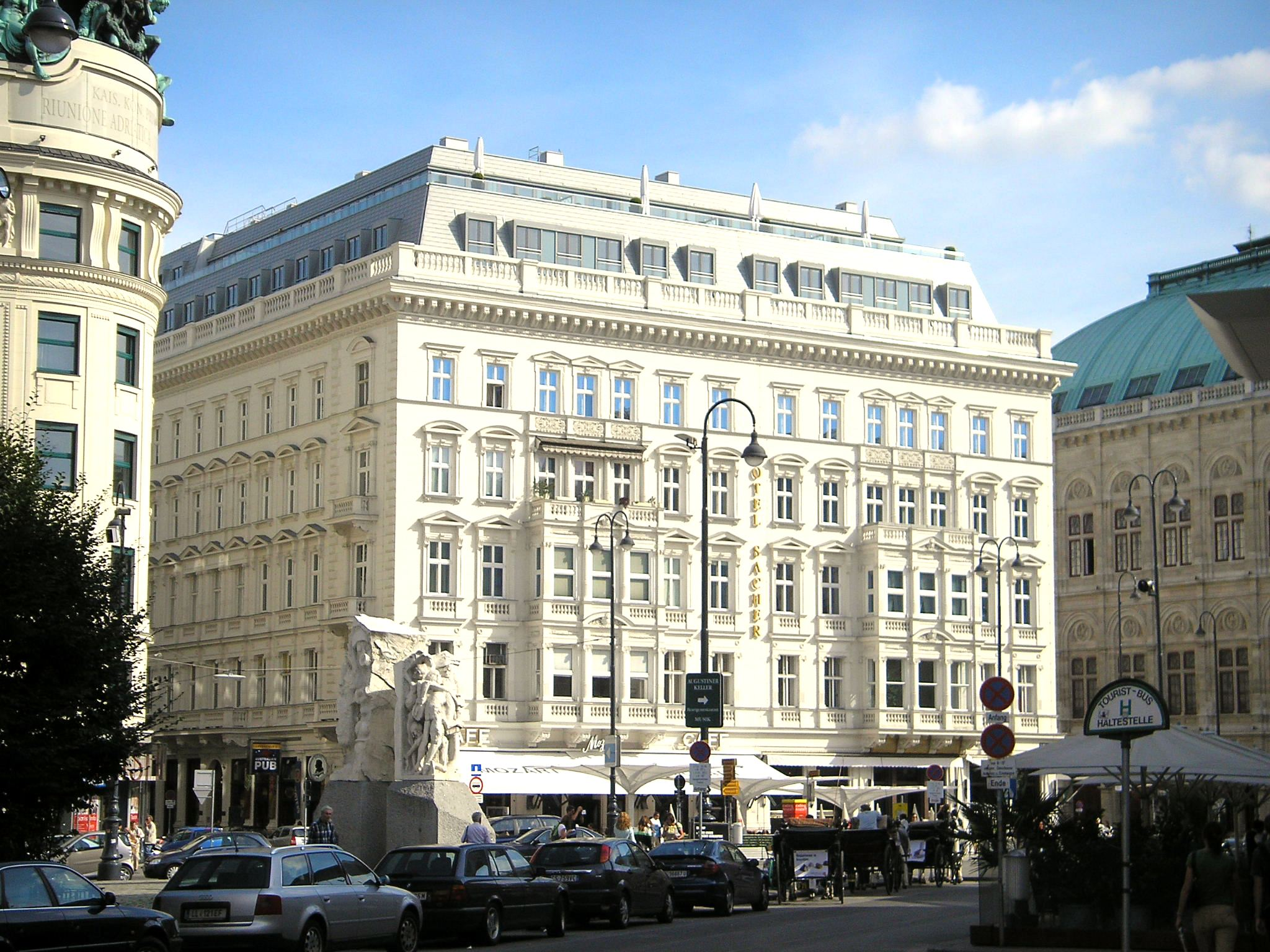 View of the Hotel Sacher in Vienna's first district Innere Stadt.